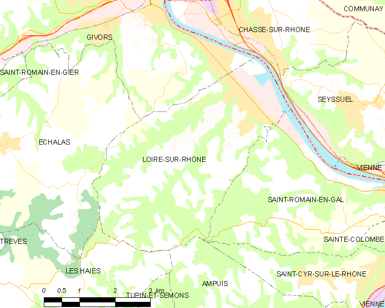 Map of French municipality